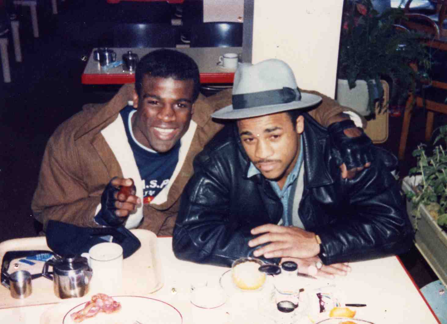 Errol Christie and Lloyd Honeyghan